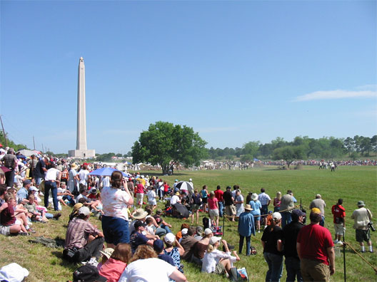 Spectators watch the reenactment of the Battle of San Jacinto, at the 2006 San Jacinto Day Festival. Photograph by J. Williams (April 22, 2006).